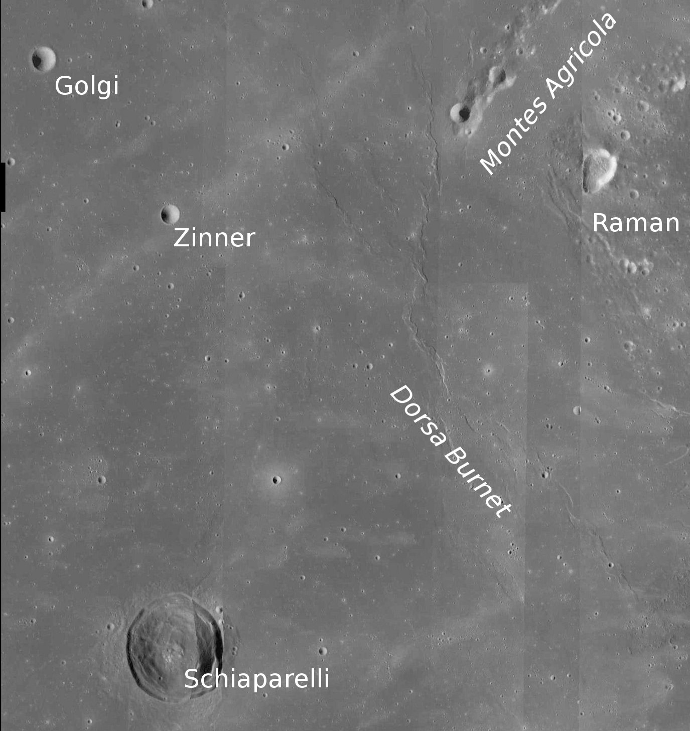 Dorsa Burnet with craters Schiaparelli, Zinner and Golgi (detail of LRO - WAC global moon mosaic)